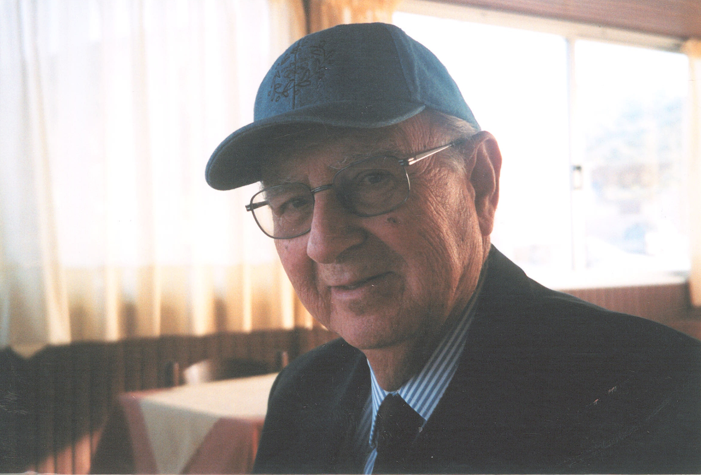 Byron Zappas, 2005 in Athens